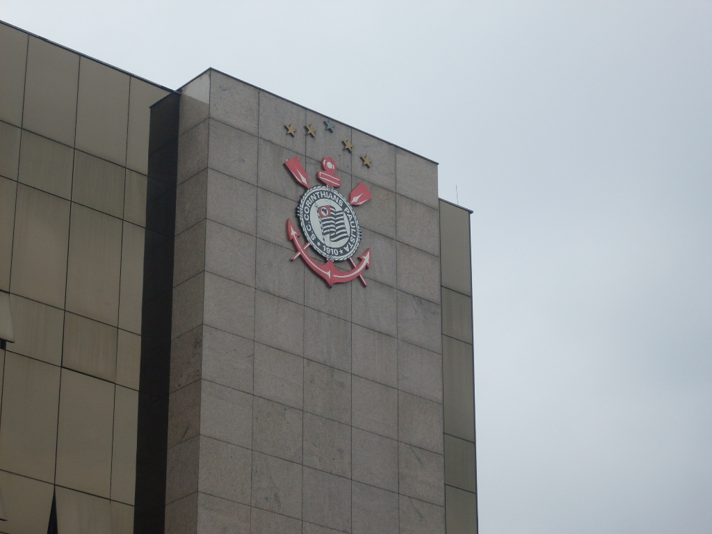 Corinthians head office in Sao Paulo, Brazil